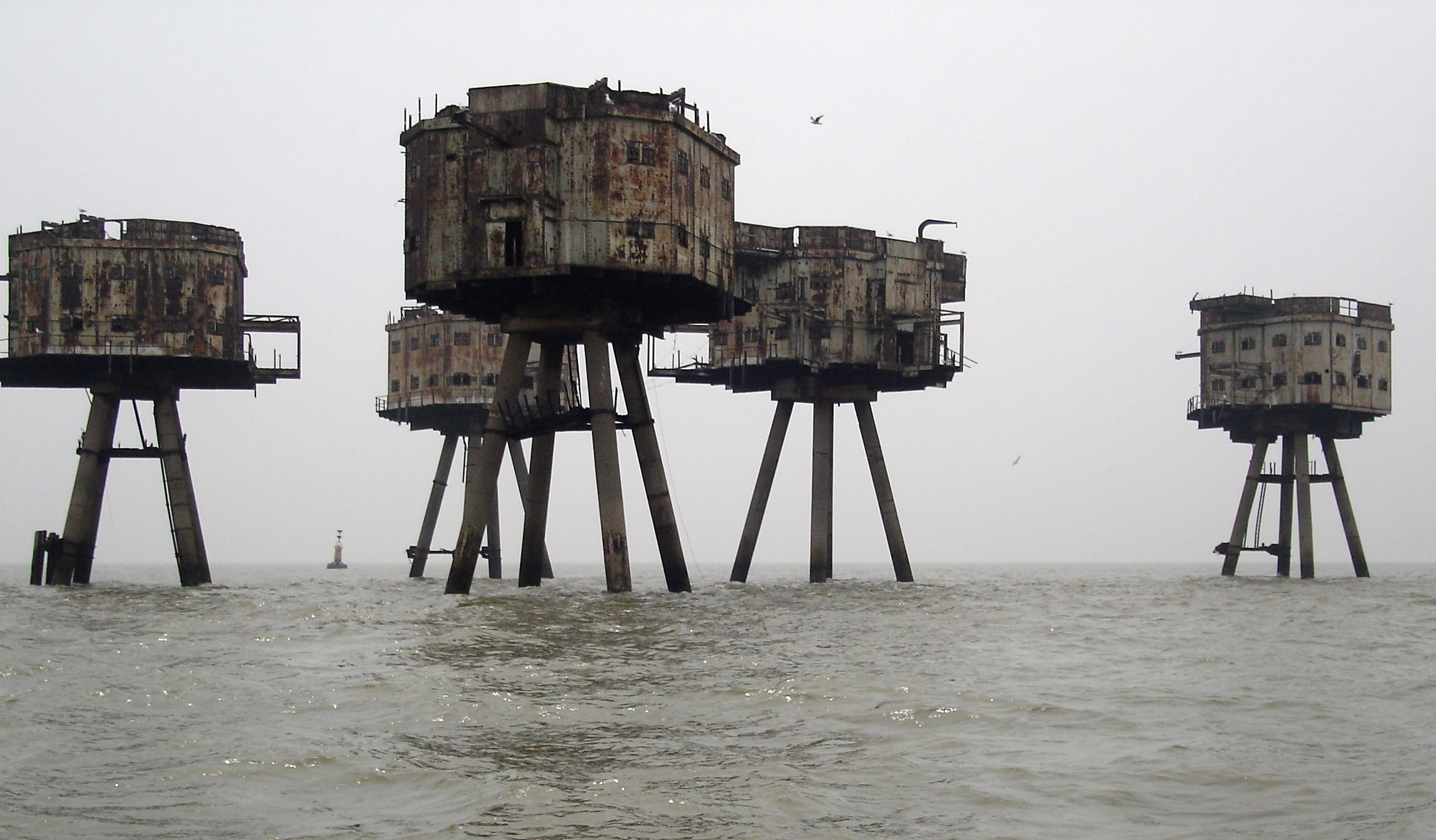 A picture of the Maunsell Sea Forts. Taken from a boat.